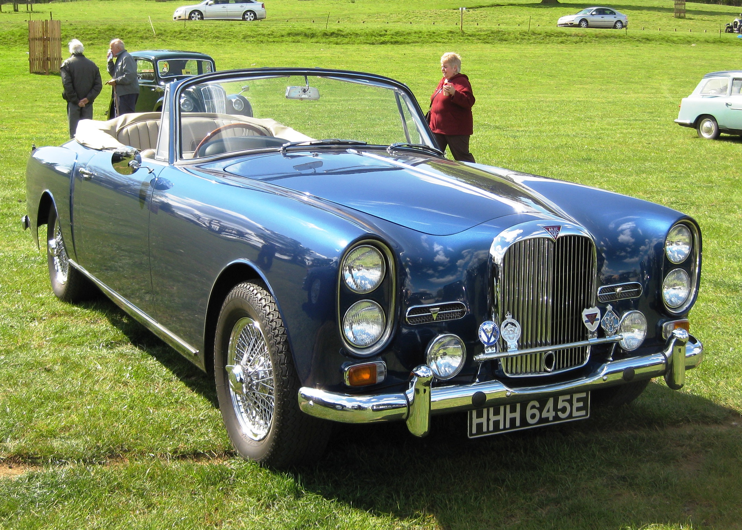 Alvis TF21 Cabriolet